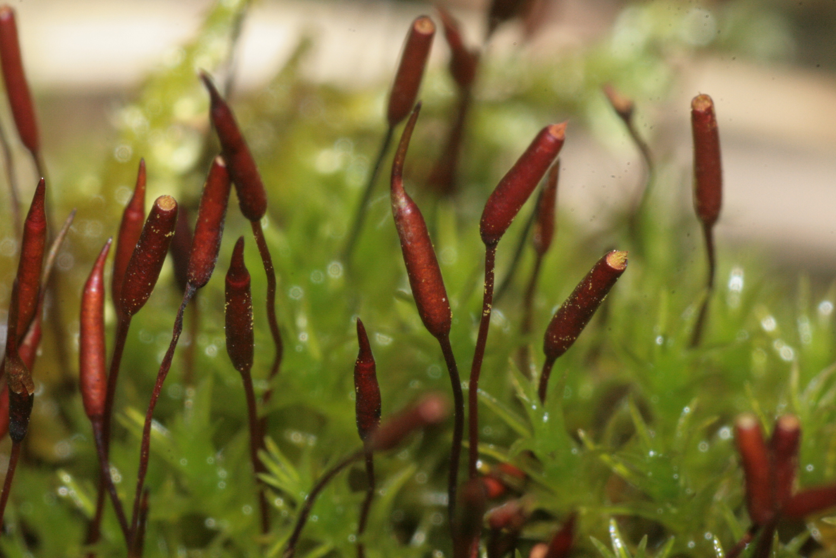 Barbula spadicea